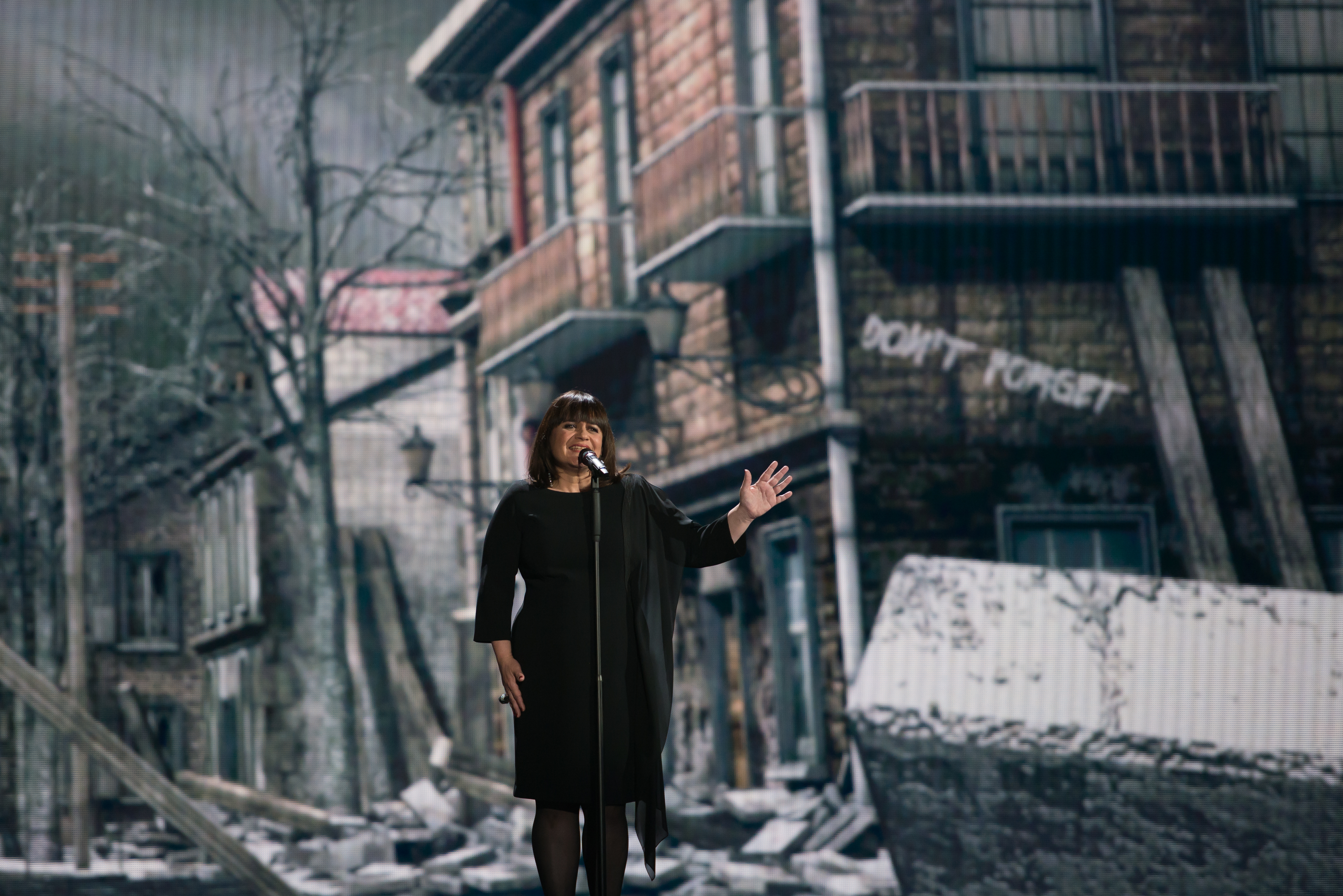 Eurovision Song Contest Vienna 2015: Lisa Angell